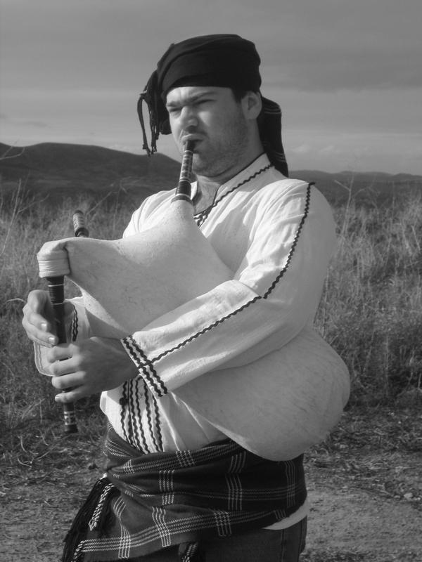 Greek Shepherd in fields playing Gaida